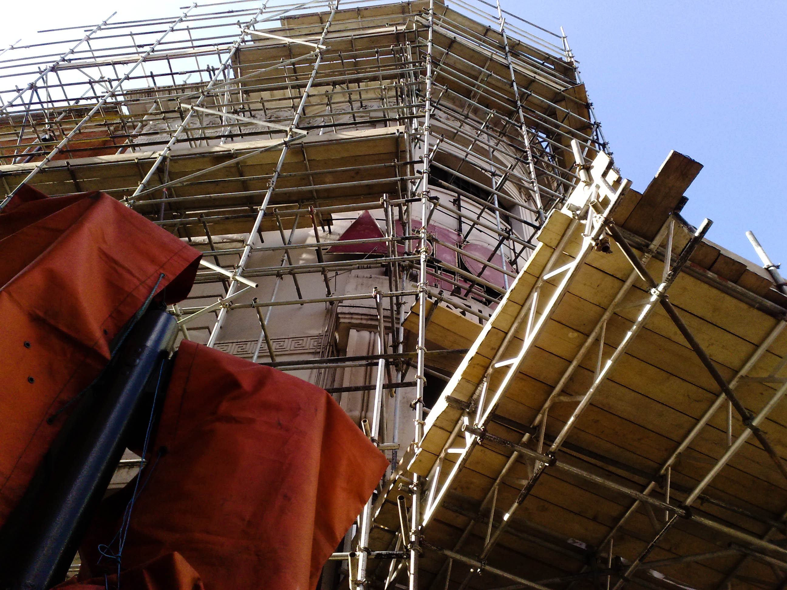 Astoria Theatre, London with scaffolding prior to demolition.